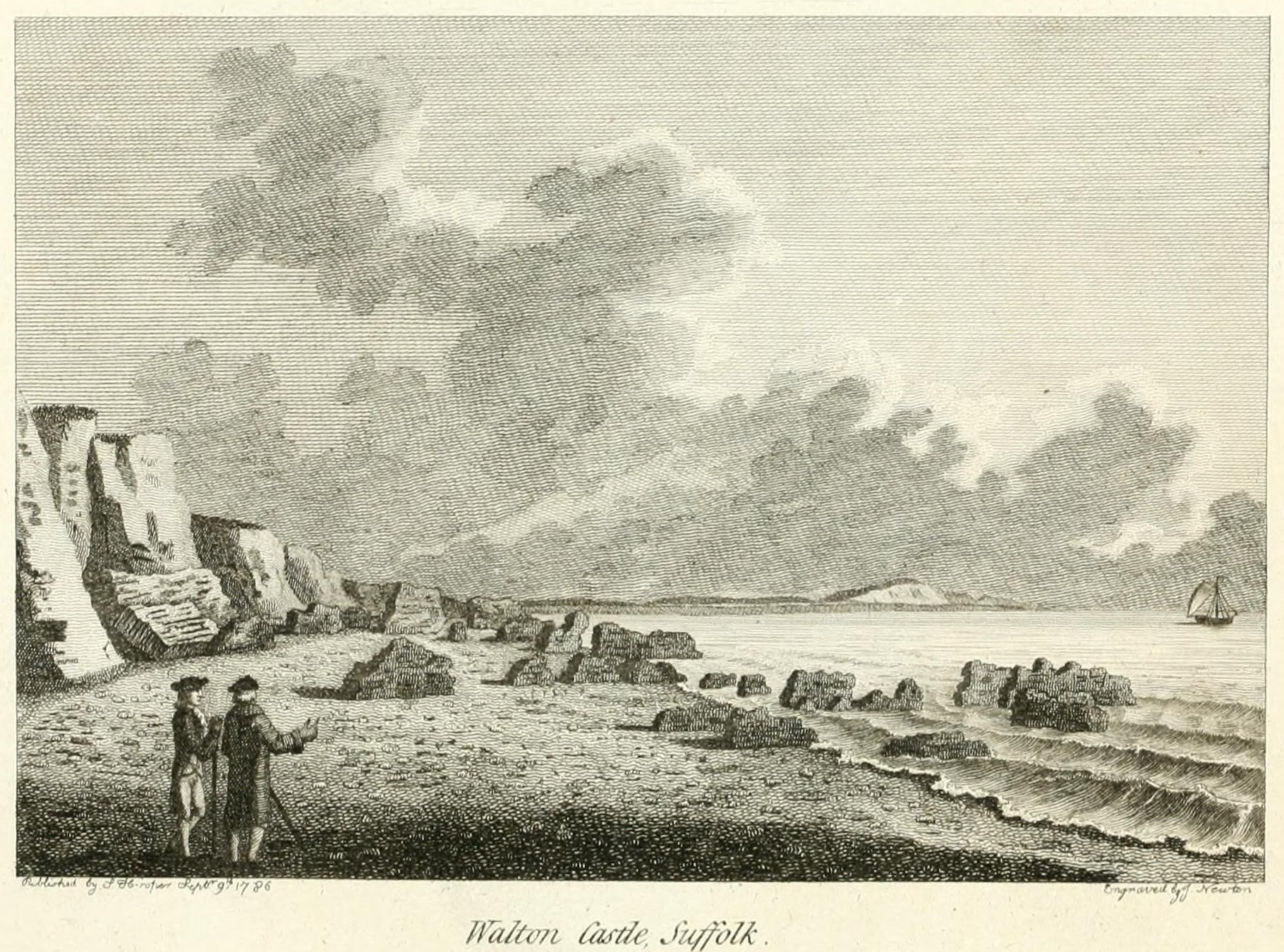 Engraving showing the remains of the Roman Saxon Shore fort known as "Walton Castle", in Felixstowe, Suffolk. From: The Antiquities of England and Wales by Francis Grose.